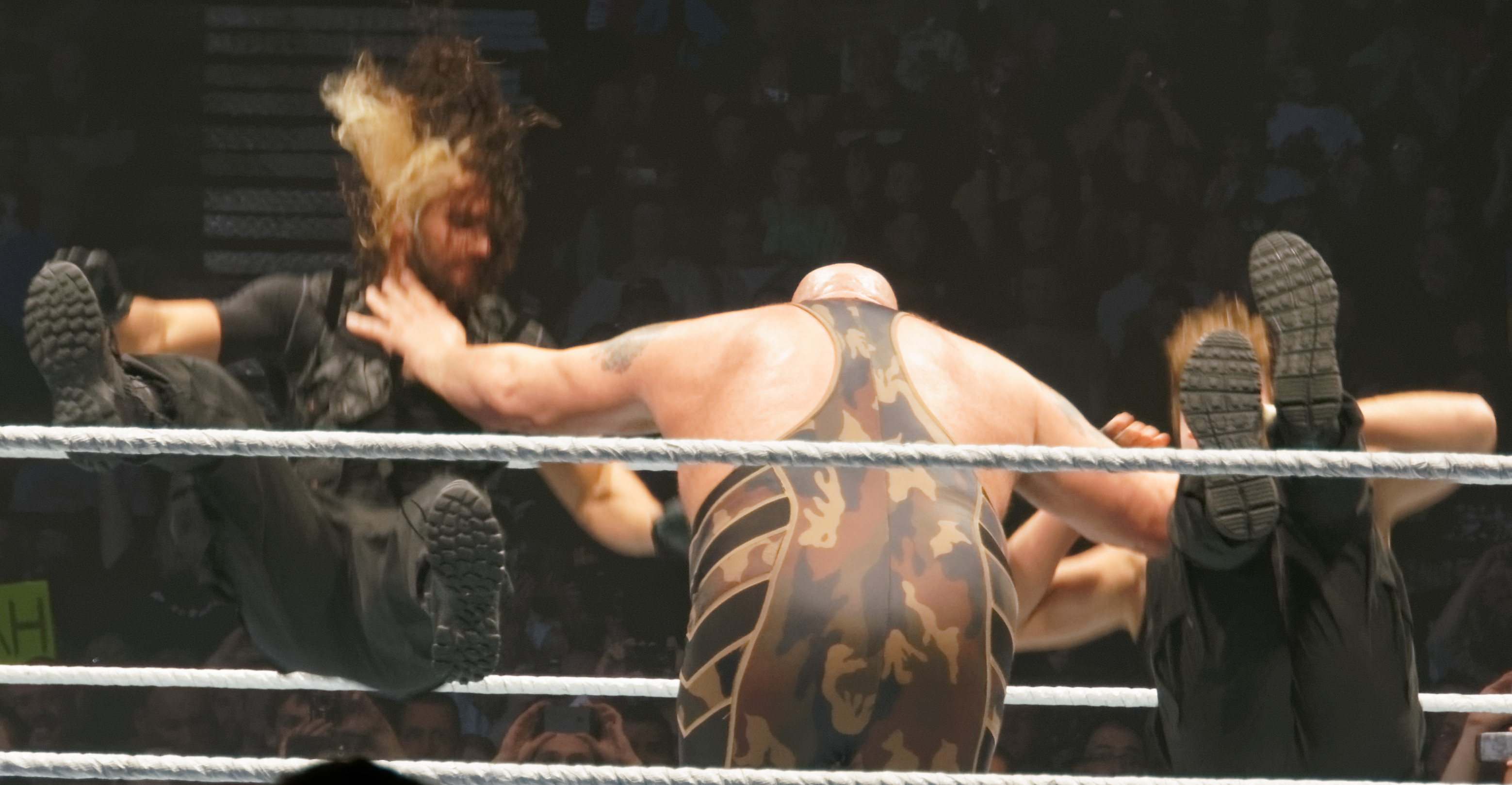 Big show chokeslamming Rollins and ambrose